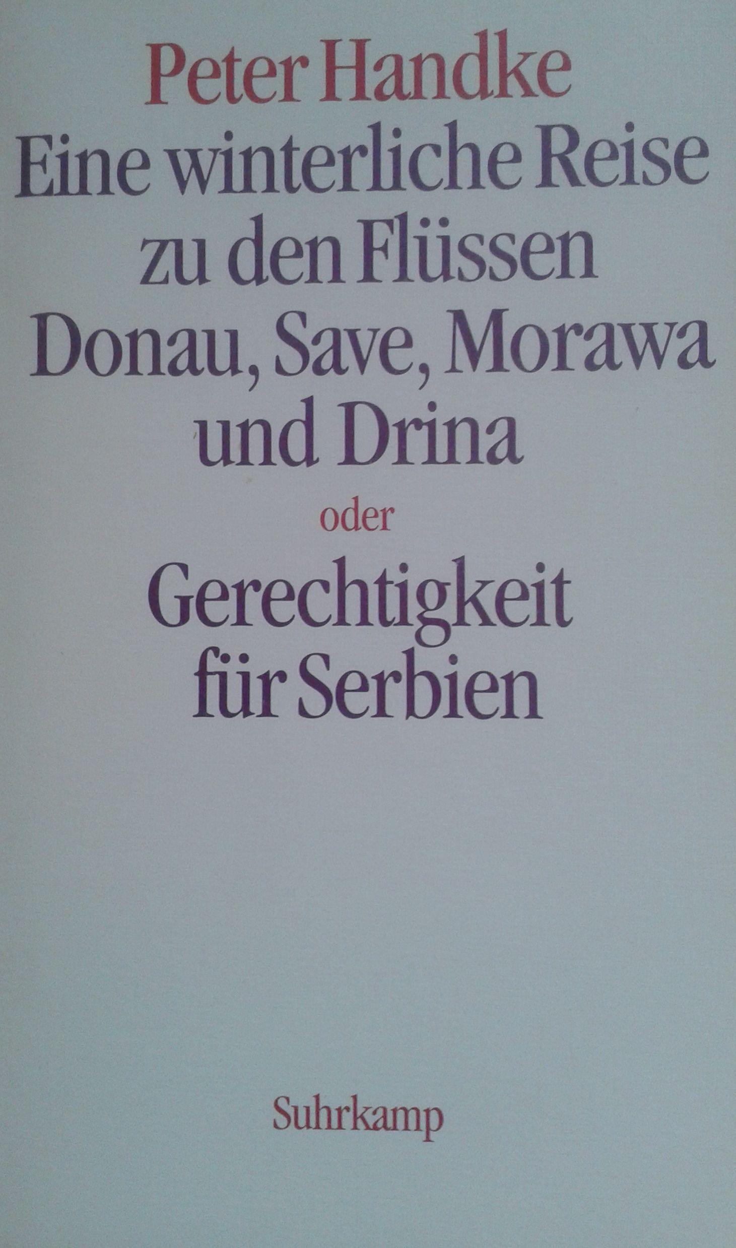 Book cover of: Peter Handke: Eine winterliche Reise zu den Flüssen Donau, Save, Morawa und Drina oder Gerechtigkeit für Serbien. Suhrkamp, Frankfurt 1996. Collection Markus Wolter